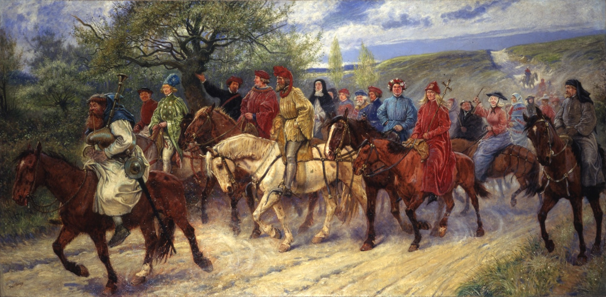 "Canterbury Pilgrims", Oil on canvas, 96.4 x 194.8 cm, Collection: Canterbury City Council Museums and Galleries